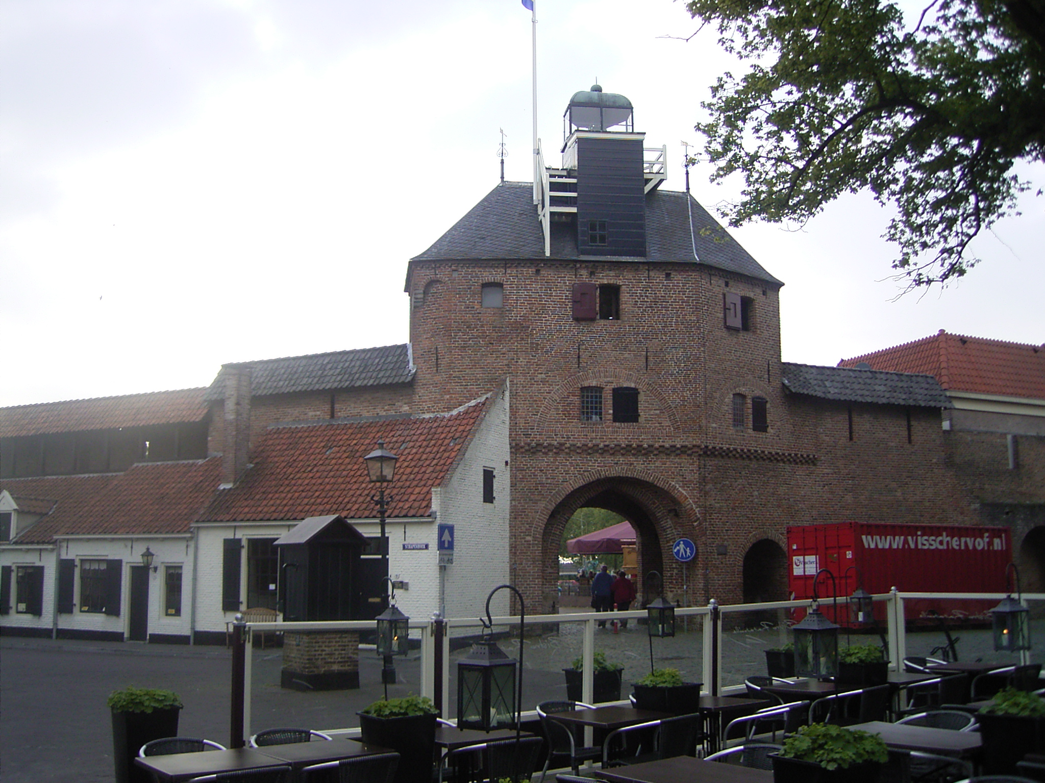 This photo shows the Fishgate in Harderwijk